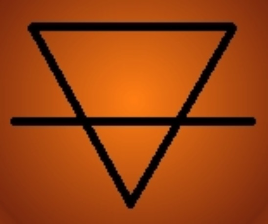 Astrological symbol of earth signs. Own work. Please note that the background color of this image is not correct; it should be green. An SVG version of this file with correct green background is available as File:Earth signs color.svg.